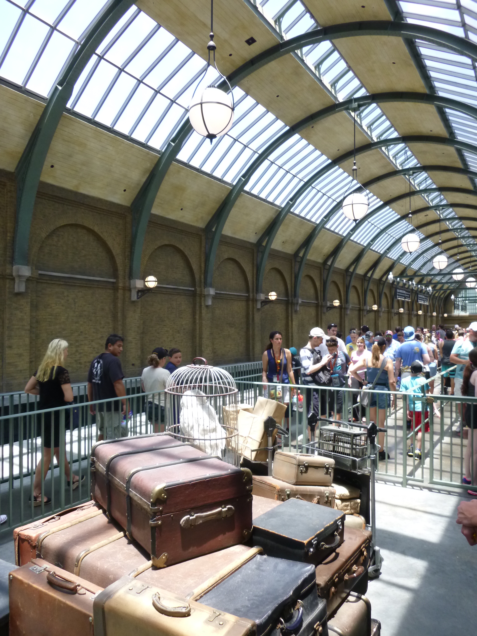 Waiting for Hogwarts Express at King's Cross station at London, Universal Studios Florida